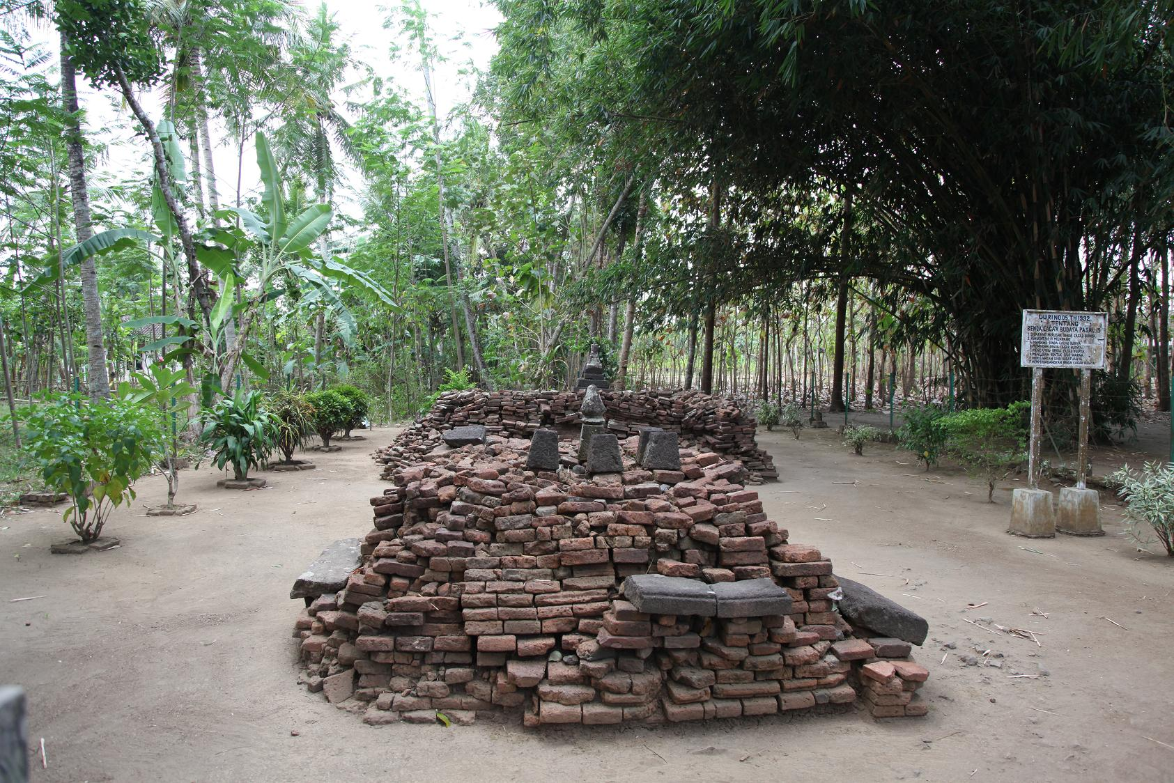 Candi Bacem (Bacem Temple)